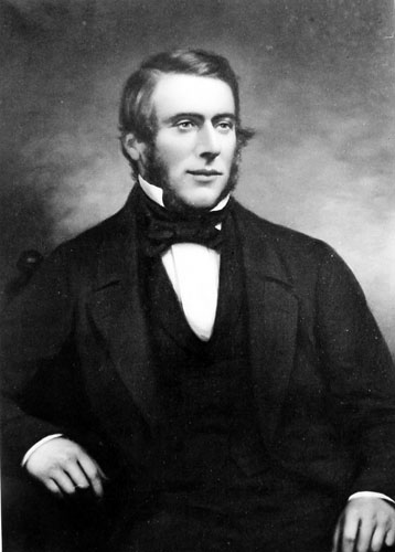 Portrait of John Deans. Canterbury Museum, Reference: 4886 NZ Recreation-Golf-02